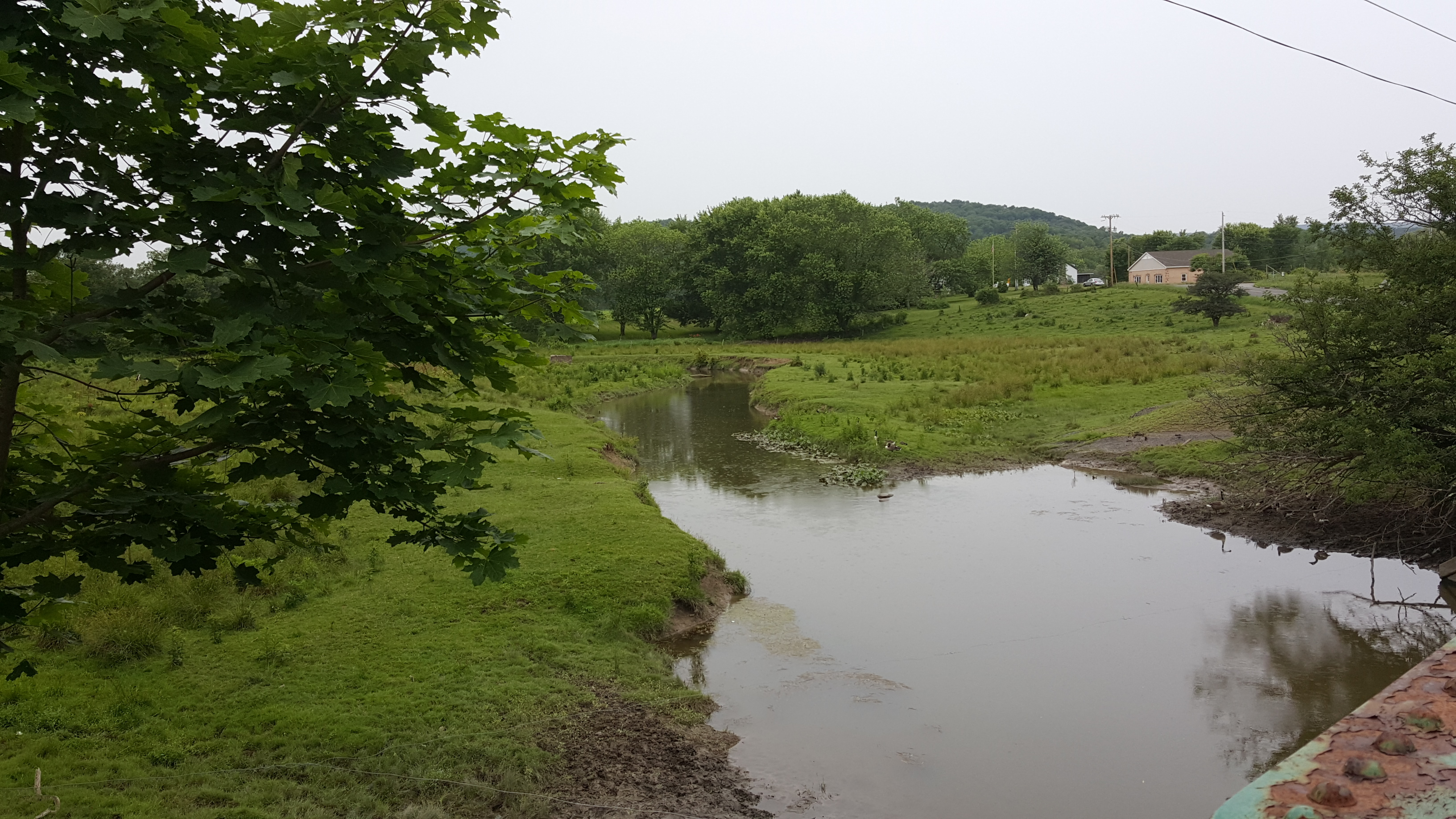 Papakating Creek from CR565 Wantage Twsp NJ